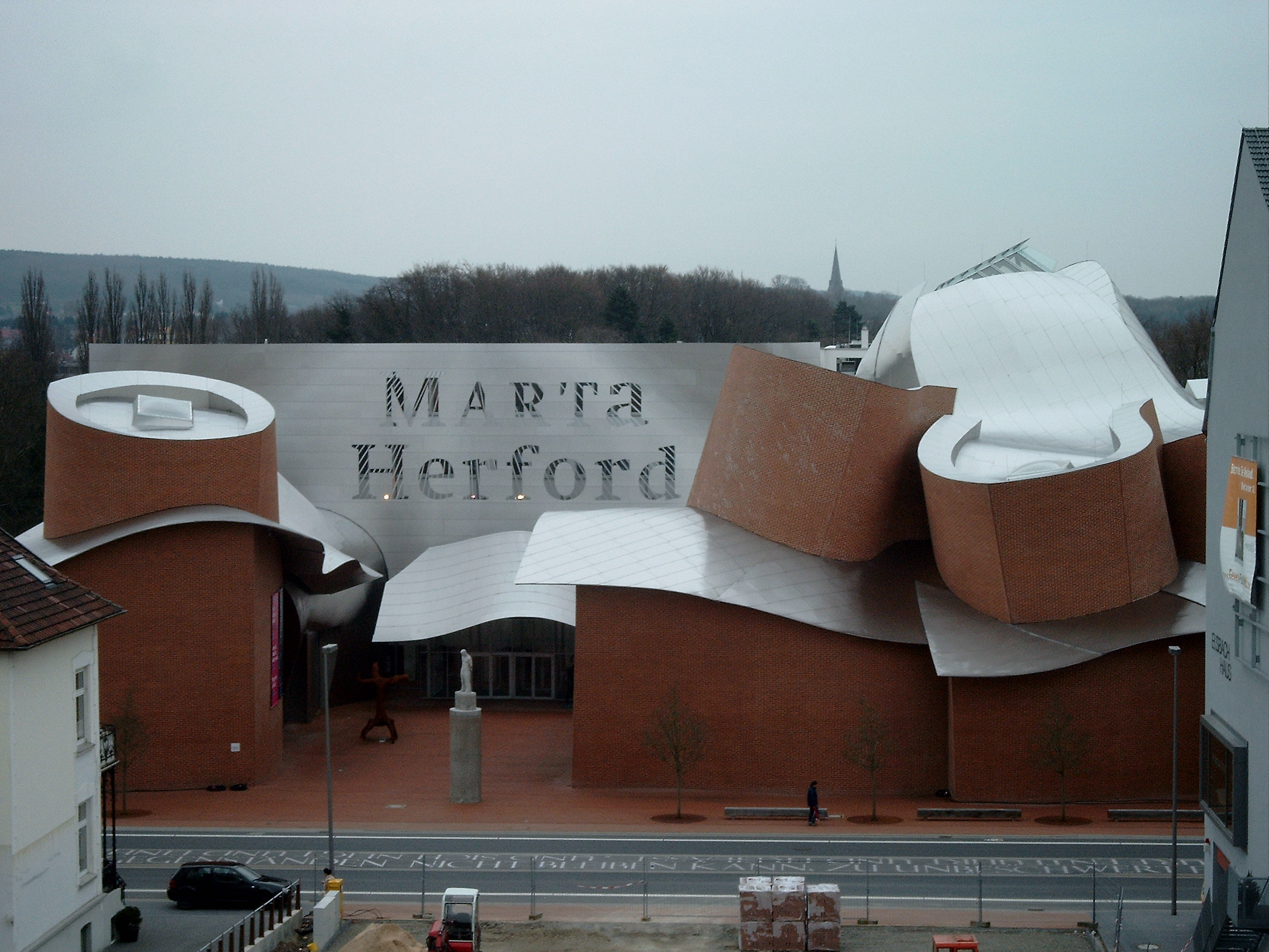 MARTa roof in town of Herford, District of Herford, North Rhine-Westphalia, Germany.